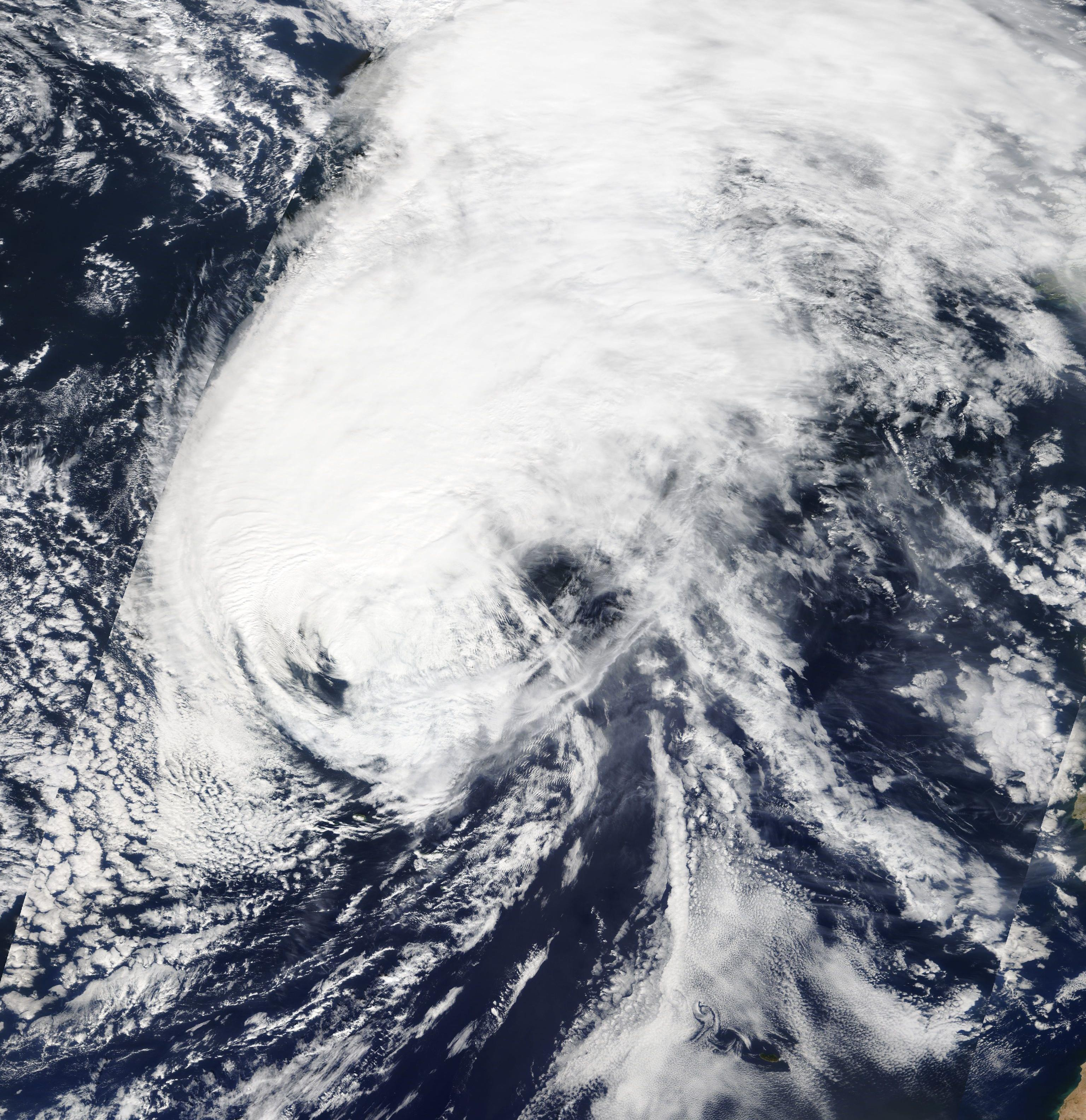 Storm Lorenzo, of the 2019-2020 European windstorm season, after passing the Azores. The storm consists out of hurricane Lorenzo's remnants, of the 2019 Atlantic hurricane season.